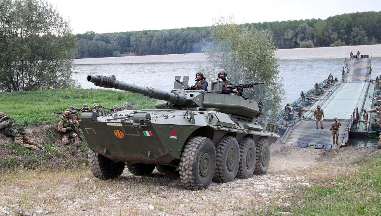 Italian Army 2nd Bridge Engineer Regiment engineers ferrying a Centauro tank destroyer of the Regiment "Savoia Cavalleria" (3rd) across the Po